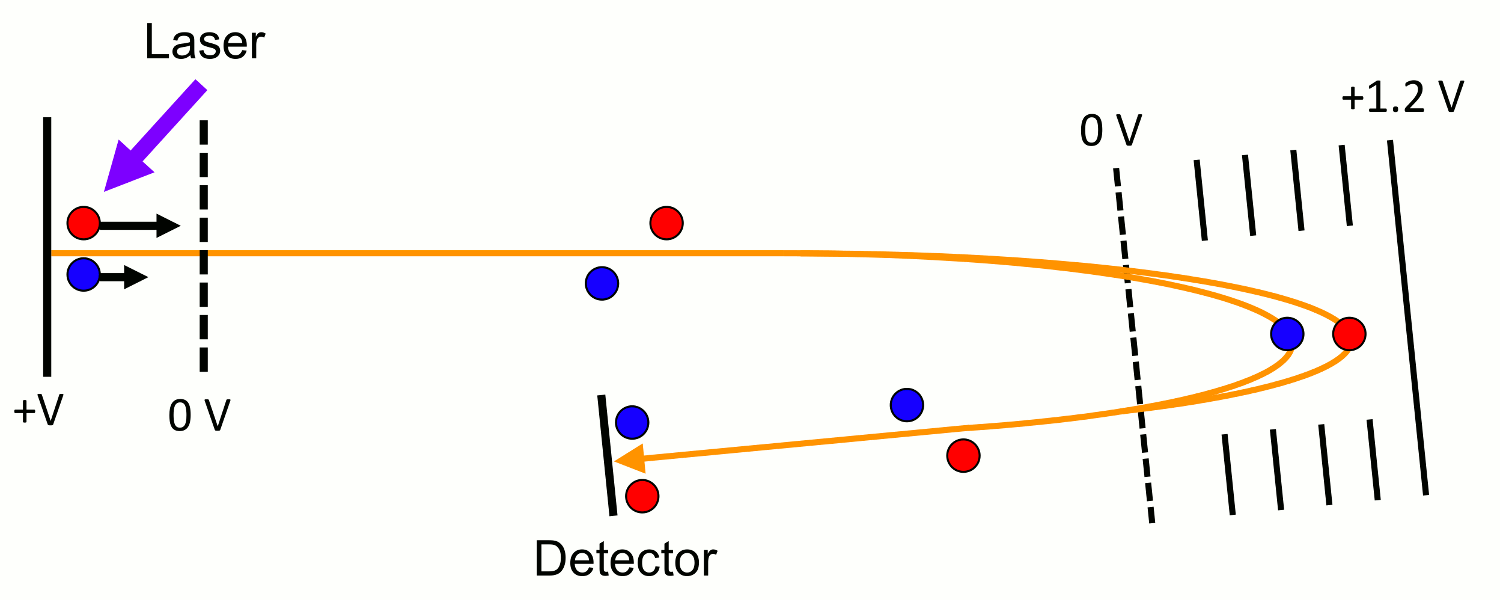 Reflectron ion mirror schematic. Two ions with the same mass and charge but one with higher energy (red) are accelerated into a field-free drift region. The ions are reflected by an electrostatic potential in the ion mirror. The higher energy ion takes a longer path through the reflection and is behind the lower energy ion (blue) at the exit. The detector is placed at the point where the higher energy ion overtakes the lower energy ion for energy focusing.